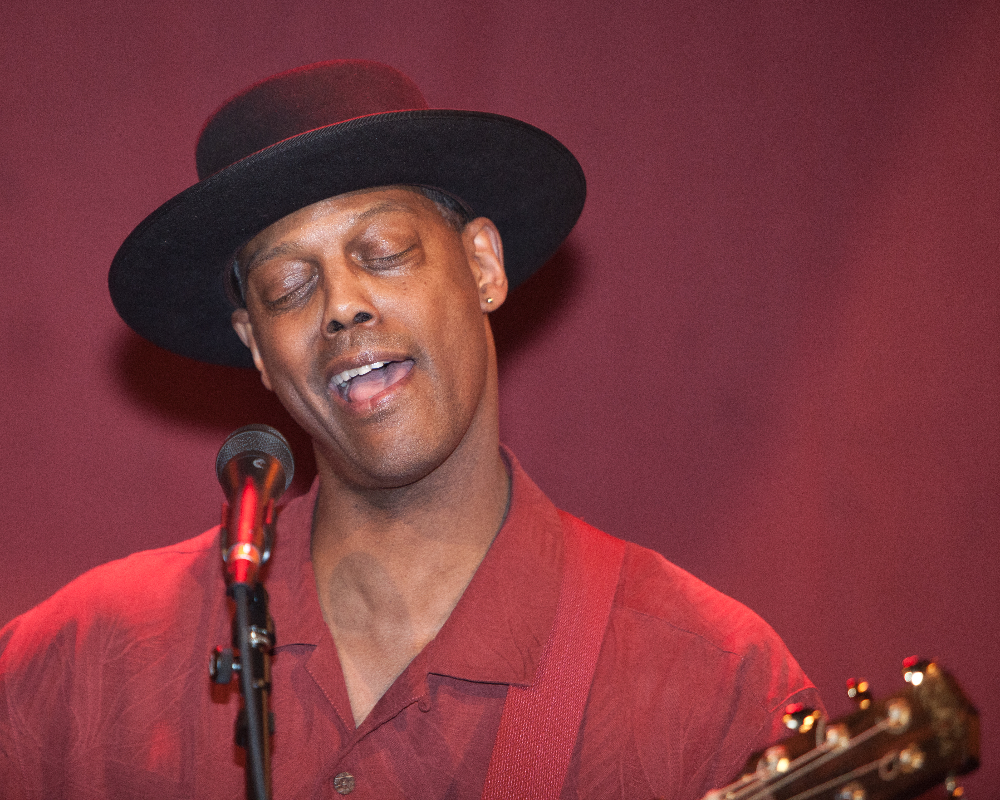 Eric Bibb performs at Fasching, Stockholm, April 2012